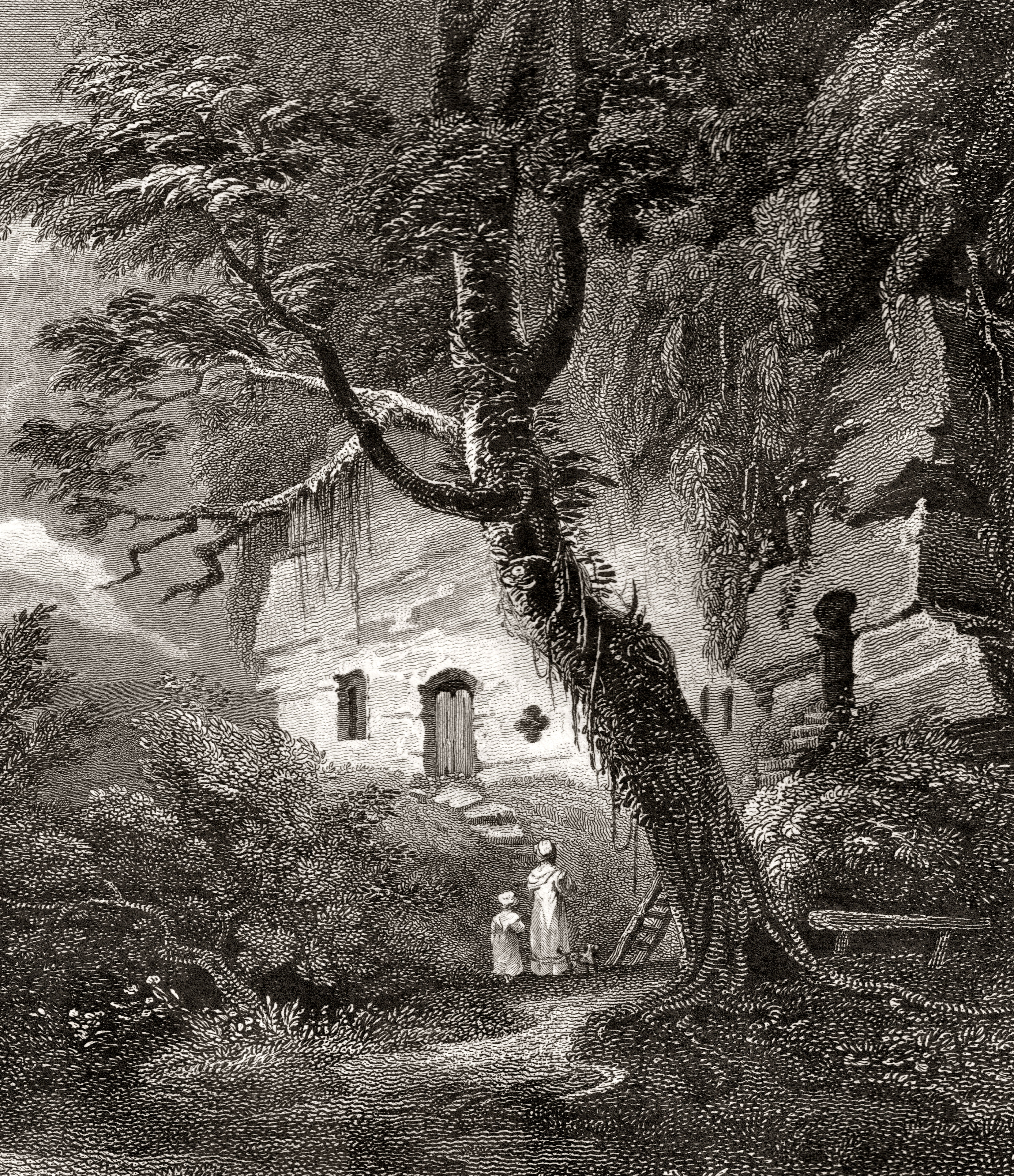 Warkworth Hermitage, exterior view, as in 1814. England.